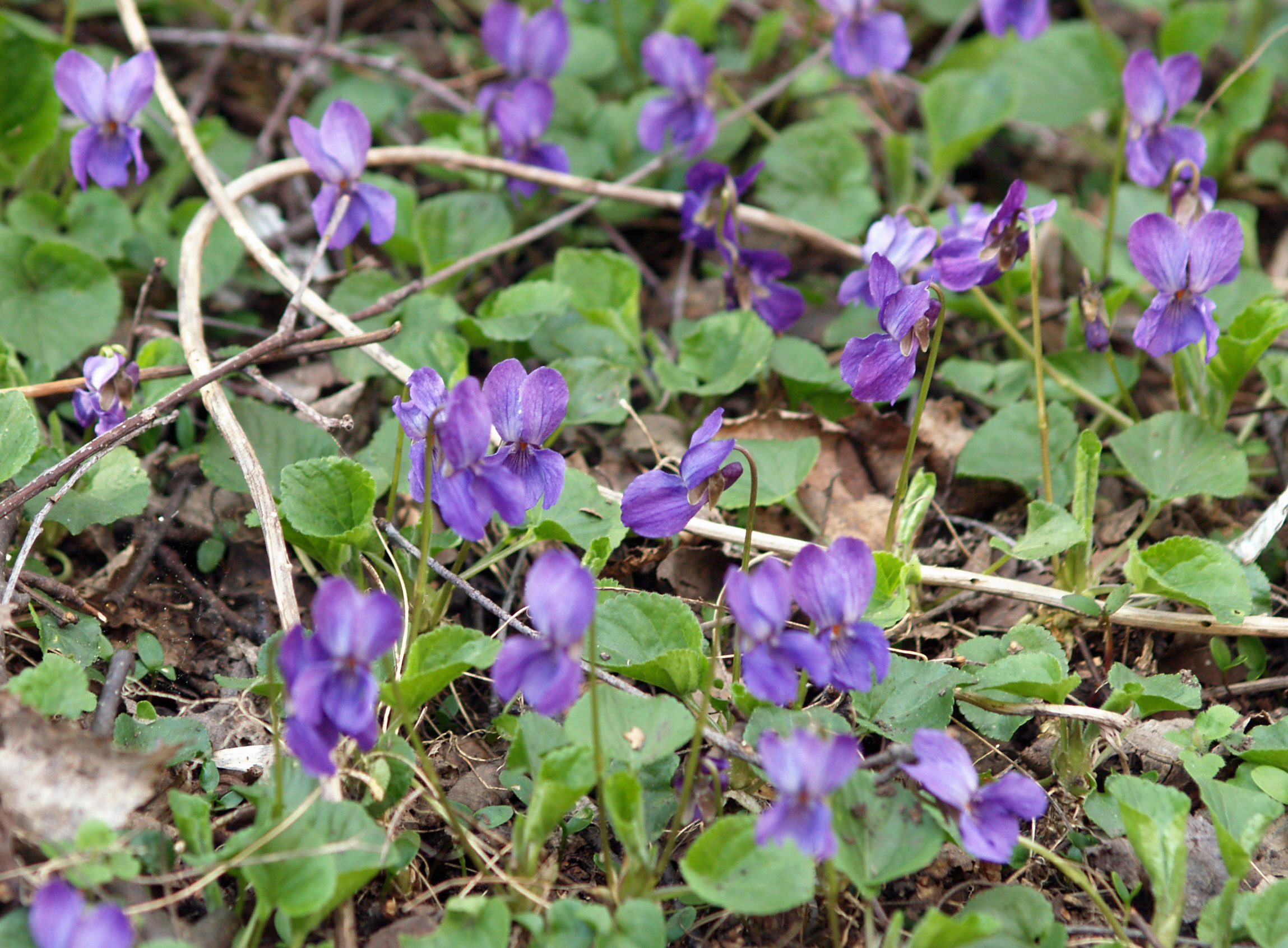 Sweet Violet (Viola odorata), Chemnitz, Germany